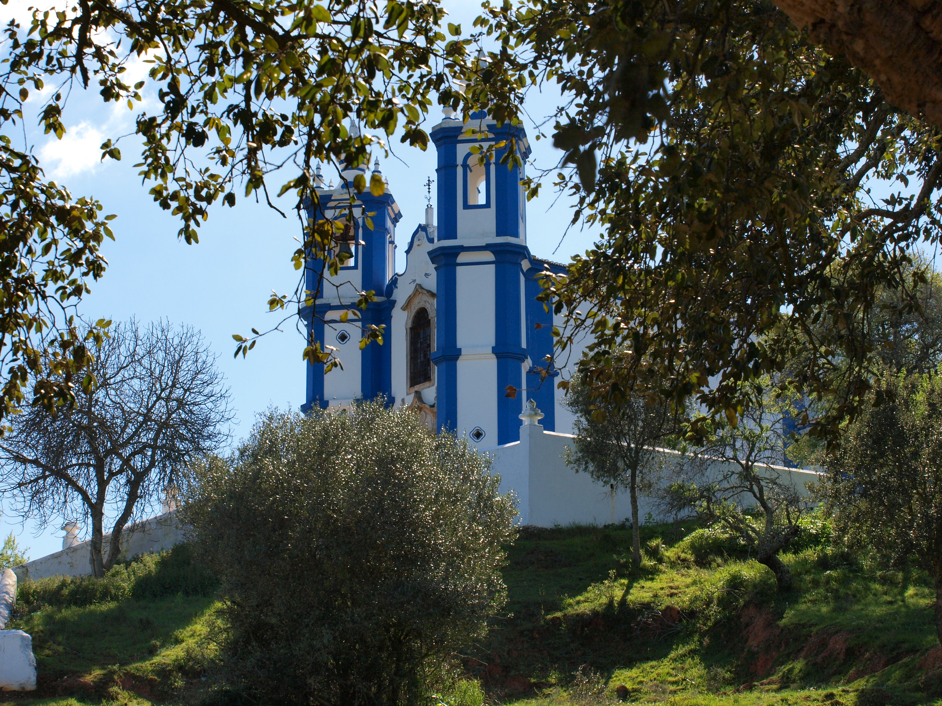 Church in the outskirts of Messejana, Aljustrel, Beja, Portugal.